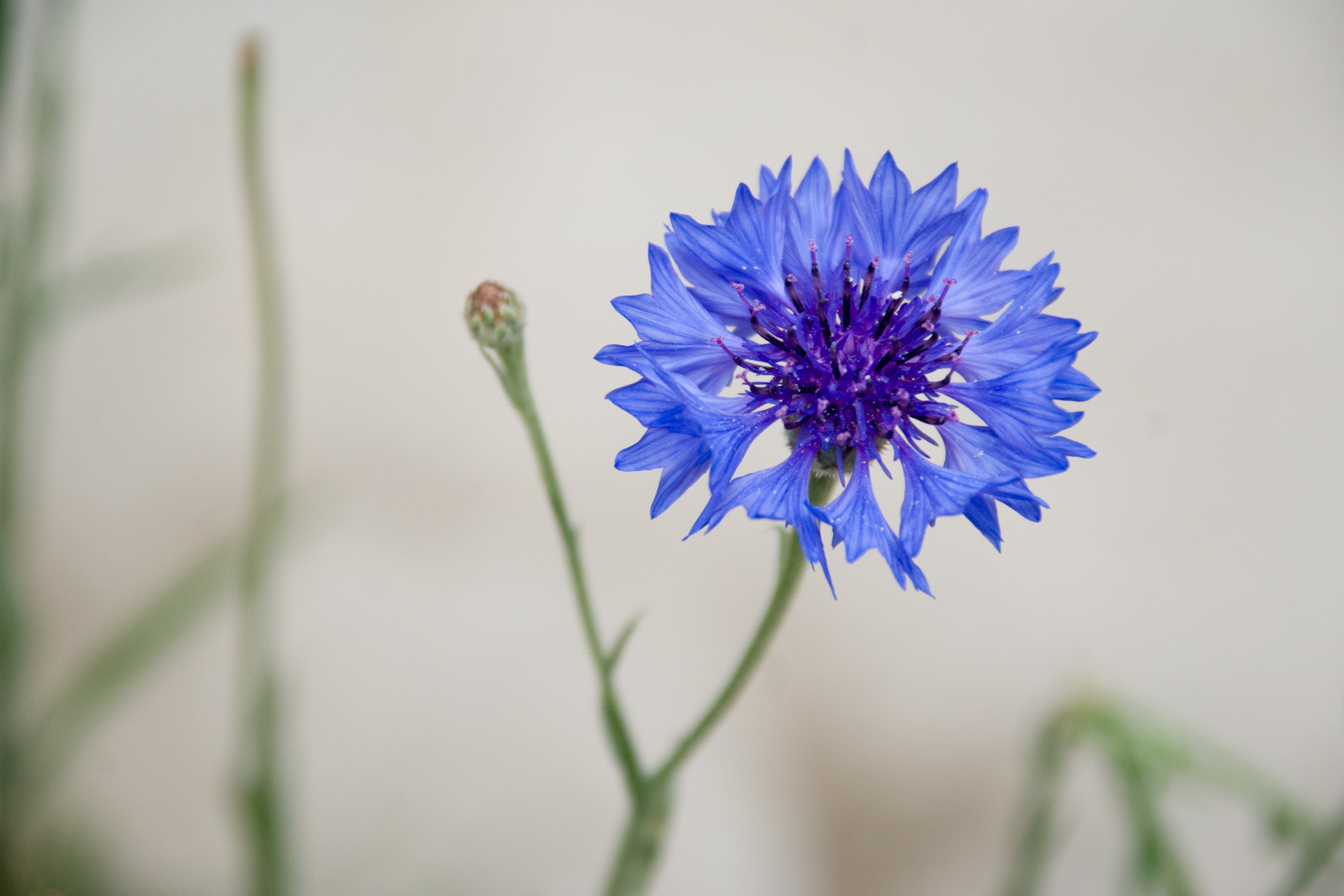 Cornflower (Cantaurea cyanis)